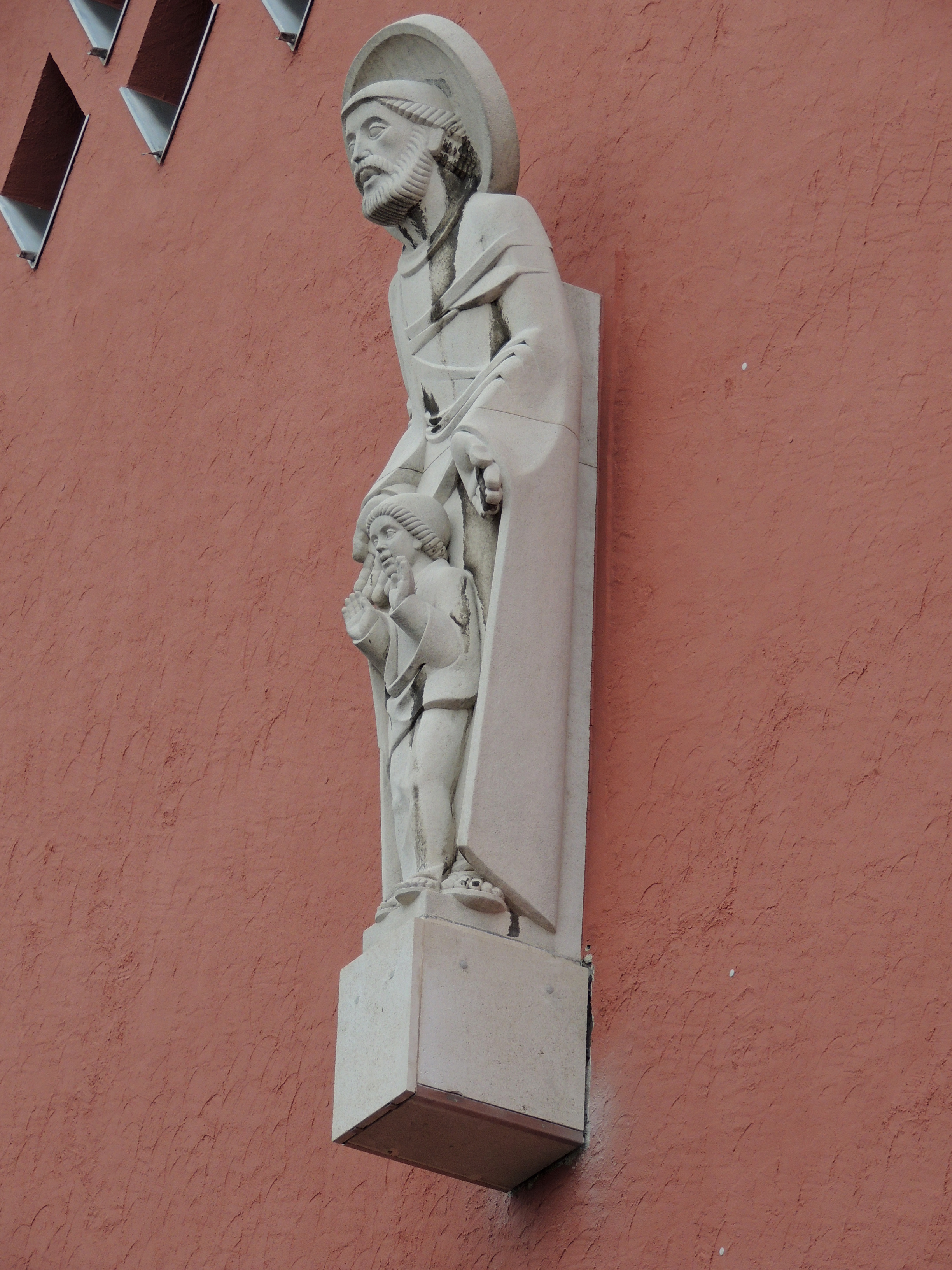 Statue of St. Joseph at the tower of the new St.-Josefs Church in Frankfurt am Main-Bornheim of 1931, situation of 2013